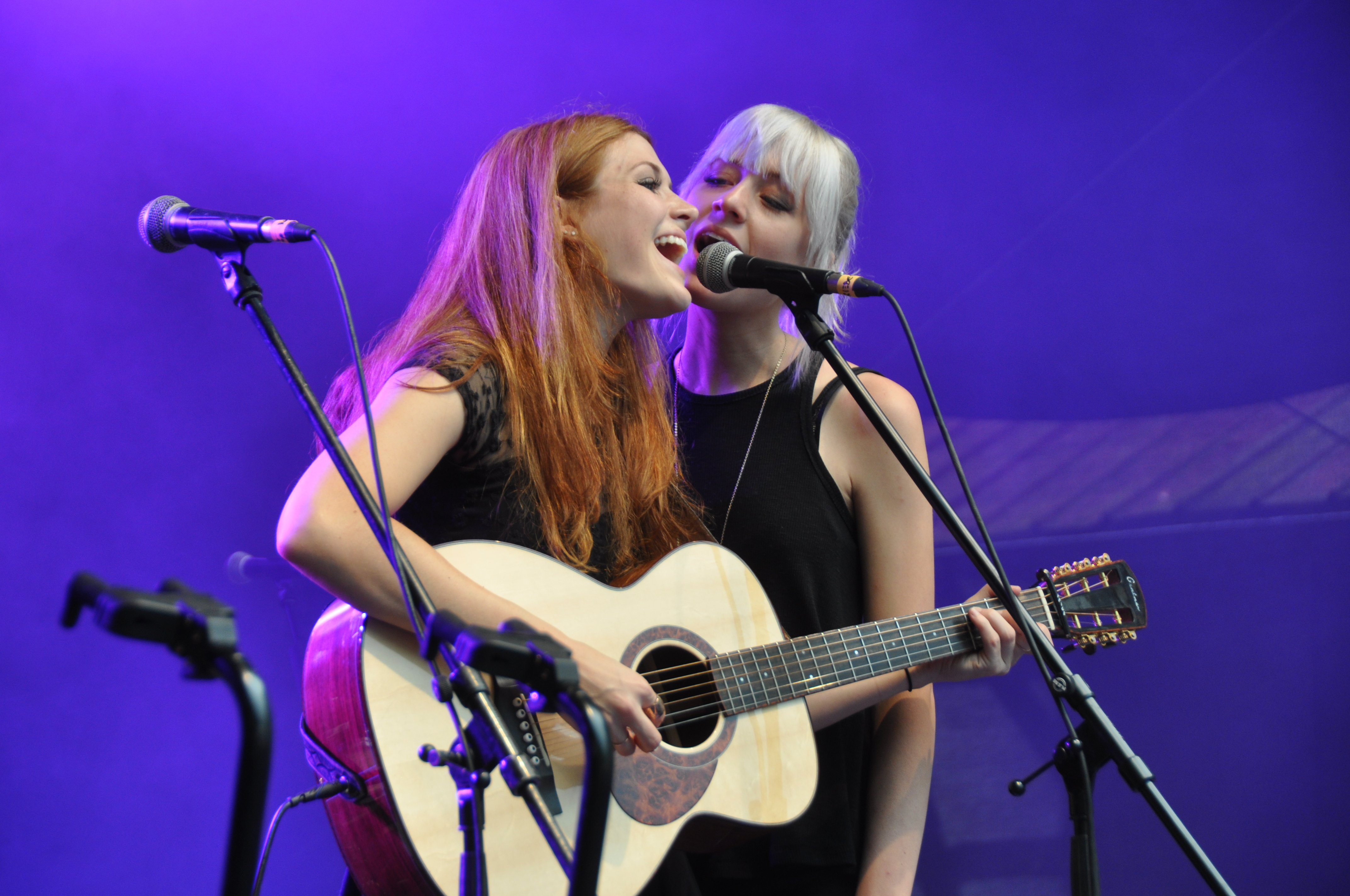 Larkin Poe, appearence at the 1st blacksheep festival in the castle yard / castle park of Bad Rappenau - Bonfeld (Germany)